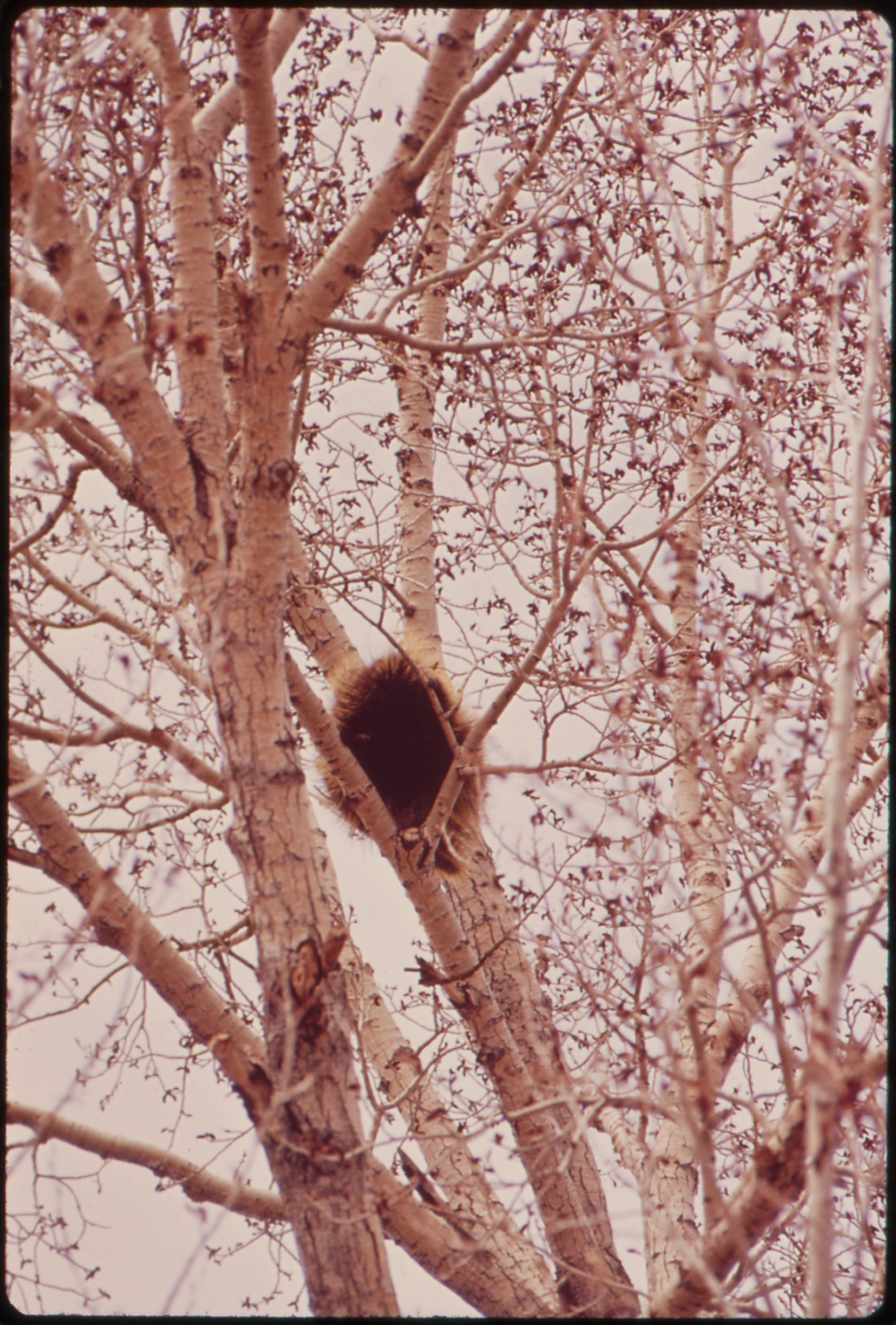 Original Caption: Porcupine in tree Great Sand Dunes National Monument, 05/1972. U.S. National Archives’ Local Identifier: 412-DA-2439 Photographer: Norton, Boyd Subjects: Environmental protection Natural resources Pollution Colorado (United States) inhabited place Persistent URL: Repository: Still Picture Records Section, Special Media Archives Services Division (NWCS-S), National Archives at College Park, 8601 Adelphi Road, College Park, MD, 20740-6001. For information about ordering reproductions of photographs held by the Still Picture Unit, visit: Reproductions may be ordered via an independent vendor. NARA maintains a list of vendors at Access Restrictions: Unrestricted Use Restrictions: Unrestricted